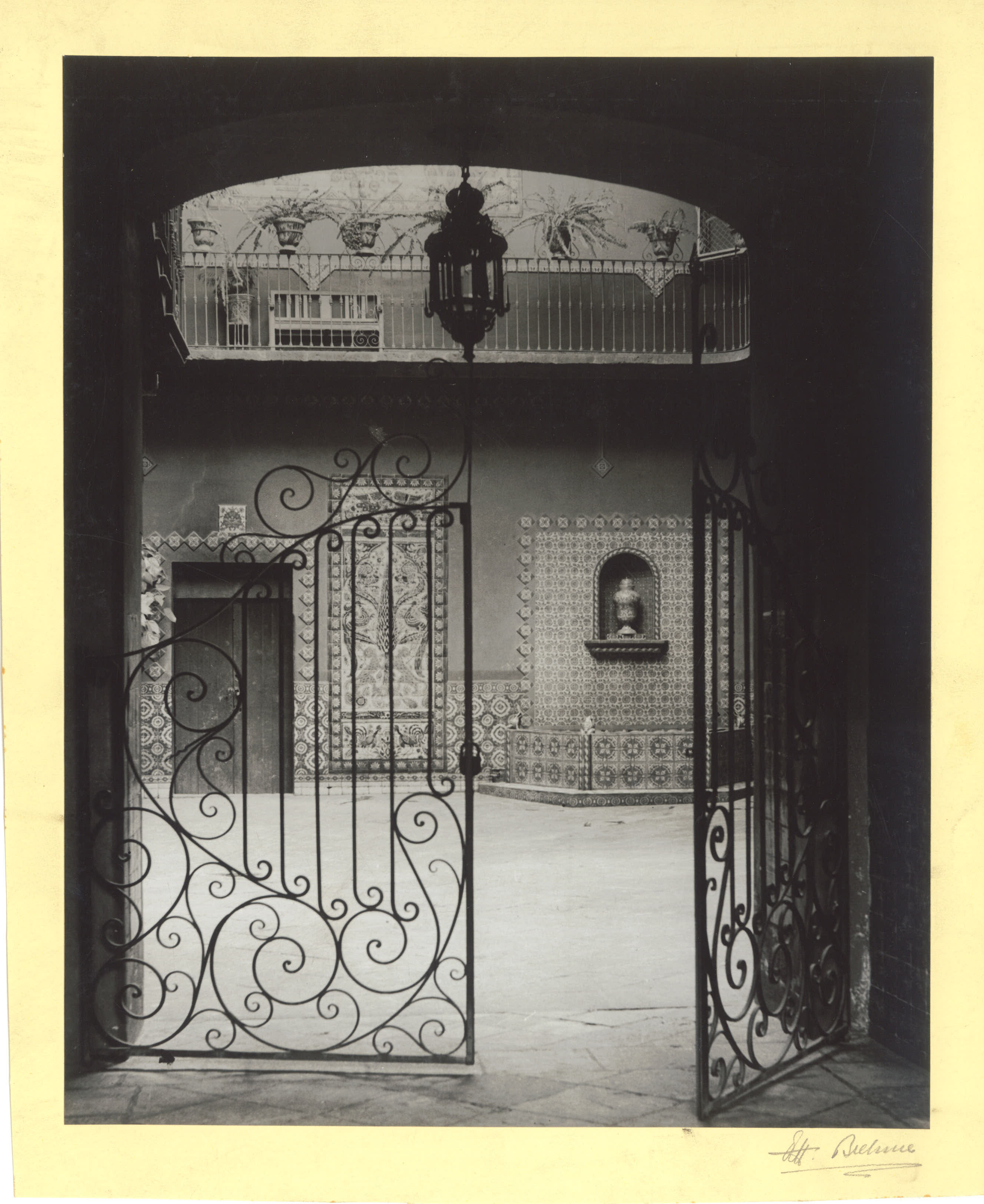 Entrance to the central courtyard of Uriarte Talavera